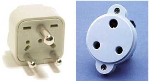 Type D plug. See Mains power plug for full information.